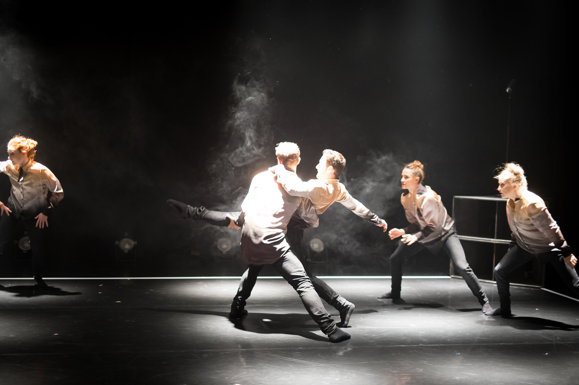 A Mighty Wind, by Jeroen Verbruggen taken 2015 Dance House Cardiff by Rhys Cozens